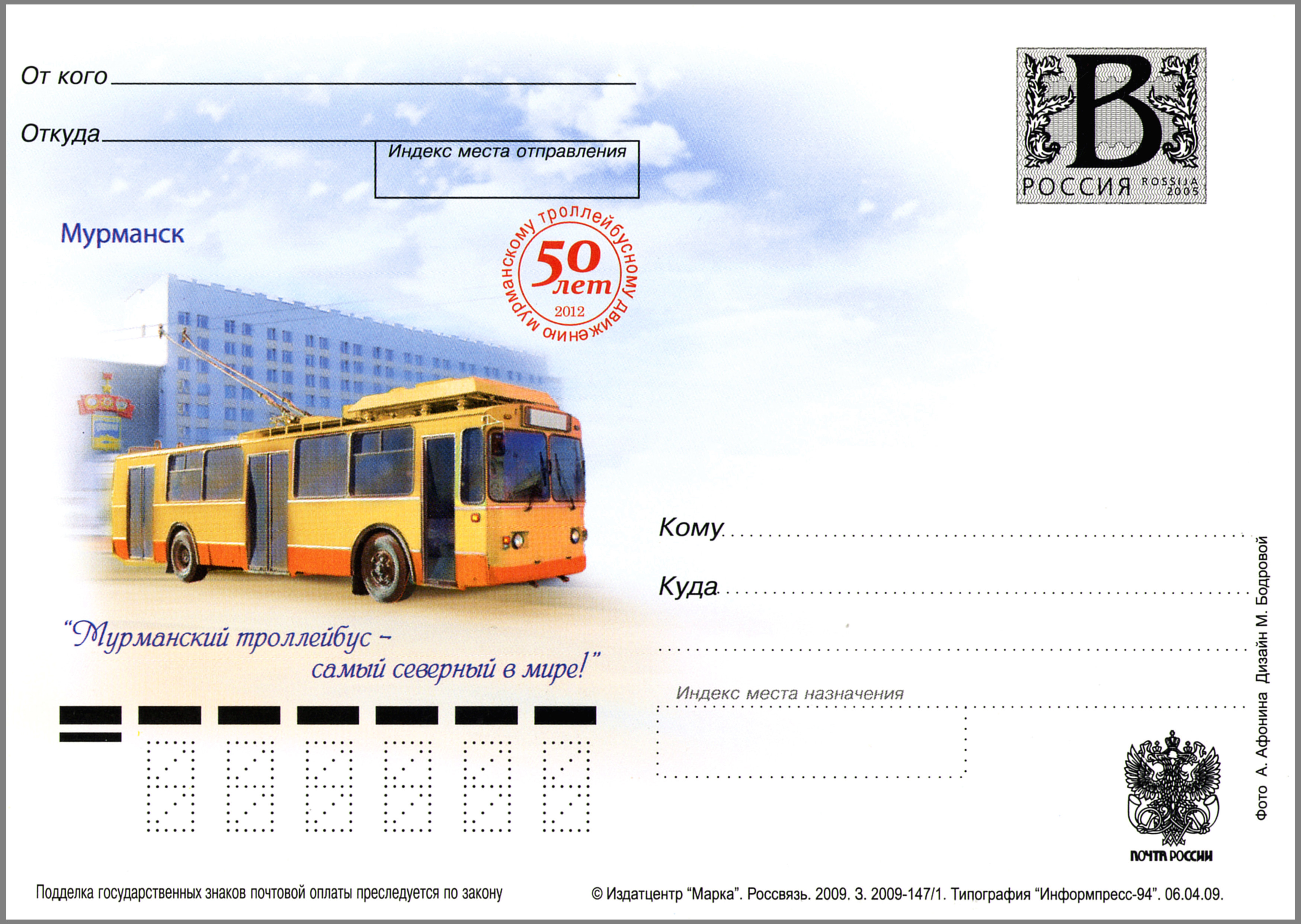 2012: 50th anniversary of the Murmansk Trolleybus Network. “The Murmansk Trolleybus is the northernmost trolleybus in the world!” The postal card with imprinted definitive non-denominated stamp “Letter B”, Russia, 2009. PTC Marka Catalogue No 2009-147/1. Coated paper. Offset printing. Size of the postal card: 105×148 mm. Print run: 8,000. A trolleybus ZiU-682 KR Ivanovo in Murmansk.